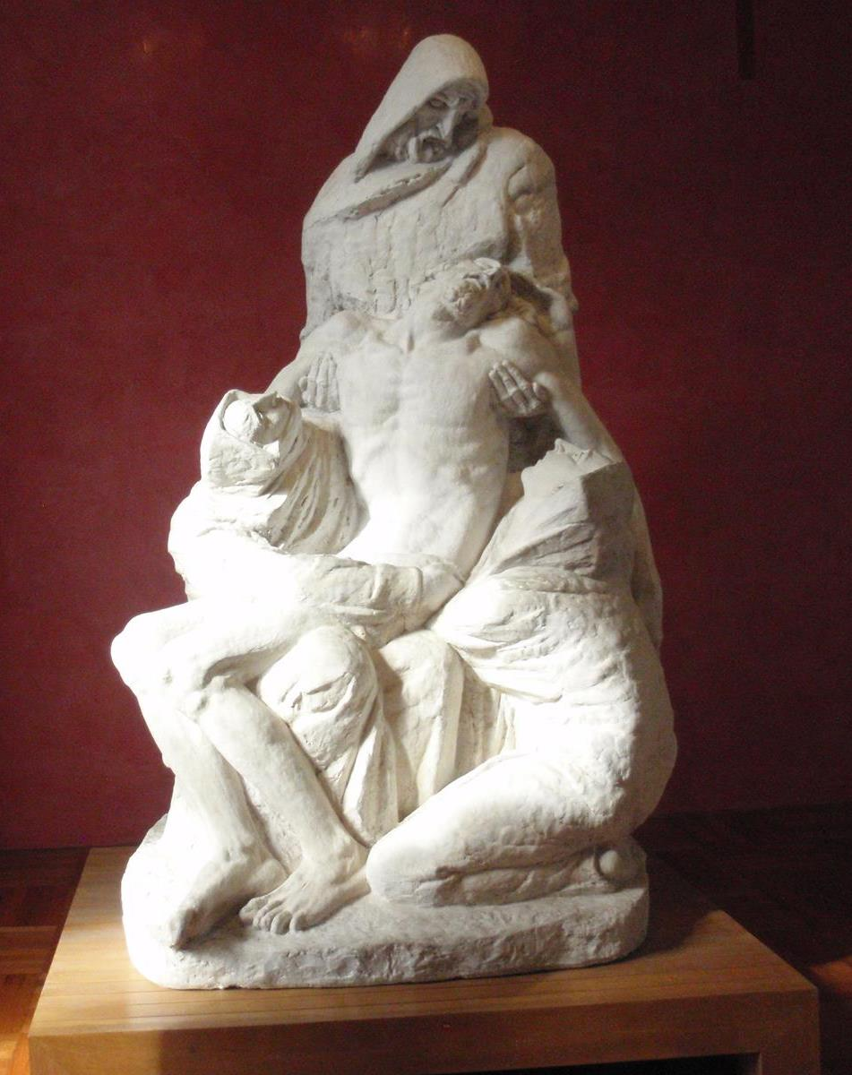 Pieta (Joseph of Arimathea in background), Ivan Mestrovic, Mestrovic Gallery, Split, Croatia